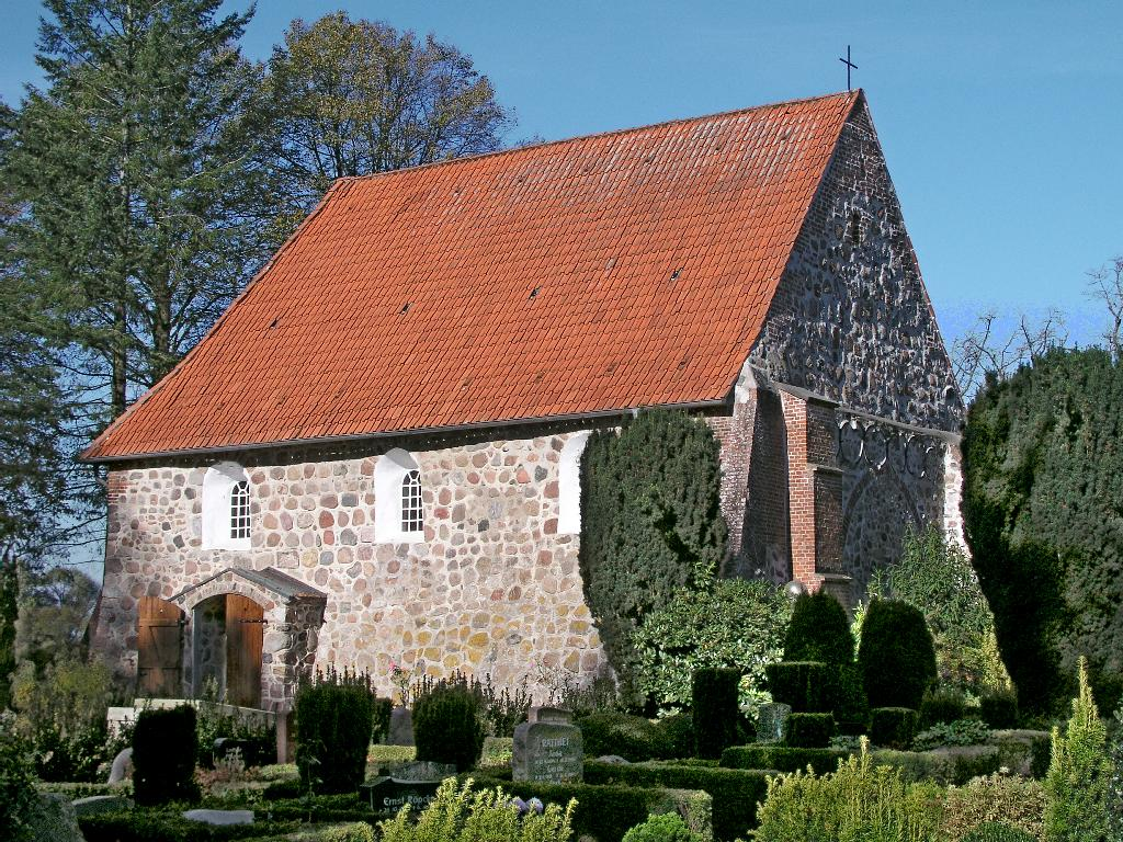 Wrist, Schleswig-Holstein, Germany: church of Stellau, photo 2007